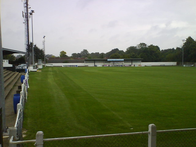 Maidenhead Utd Football Ground York Rd, home of Maidenhead United FC